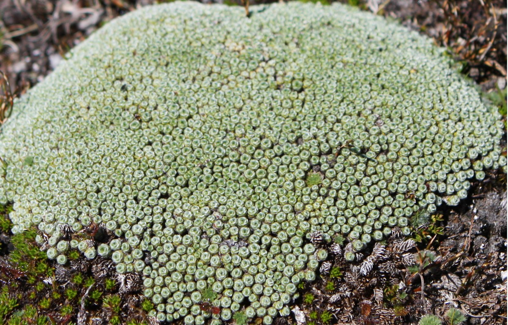 Pterygopappus lawrencei Seen on the side of Mount Doris Pterygopappus lawrencei - light gray, like a little cabbage Day 4 of Overland Track Australia oz2009 293